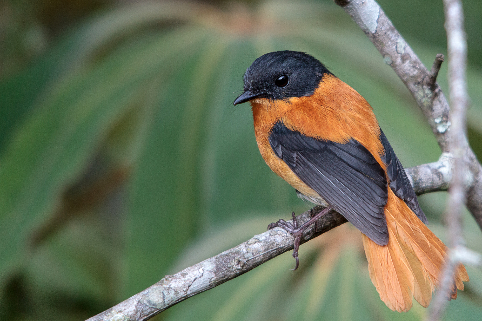 Black-and-orange Flycatcher Ficedula nigrorufa photographed from a shola forest in Munnar